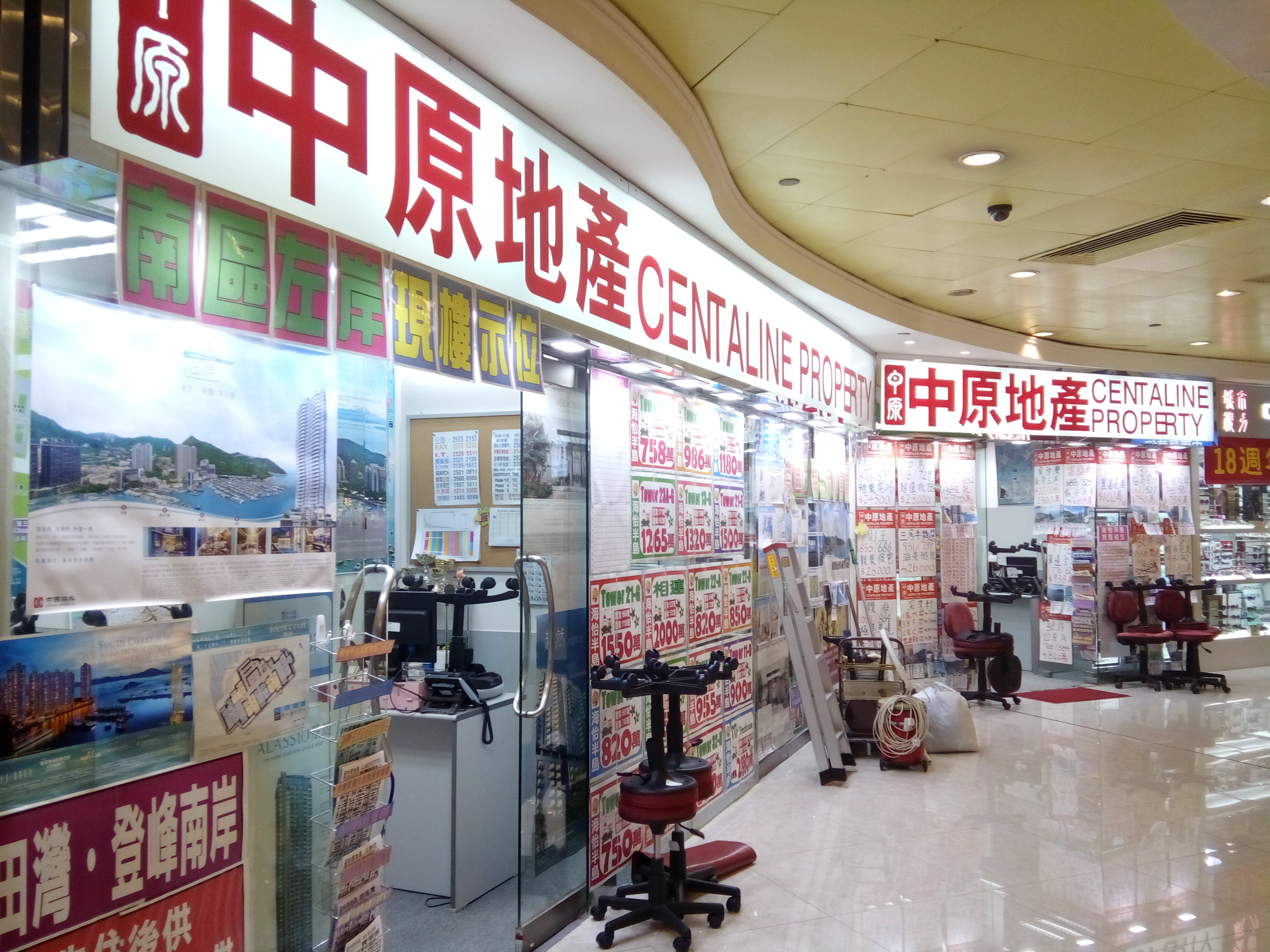 HK ALC South Horizons 海怡廣場 西翼 Marina Square West Centre shop in Dec 2016